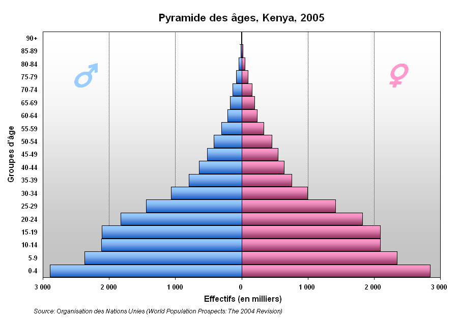 Kenya Population pyramid, 2005